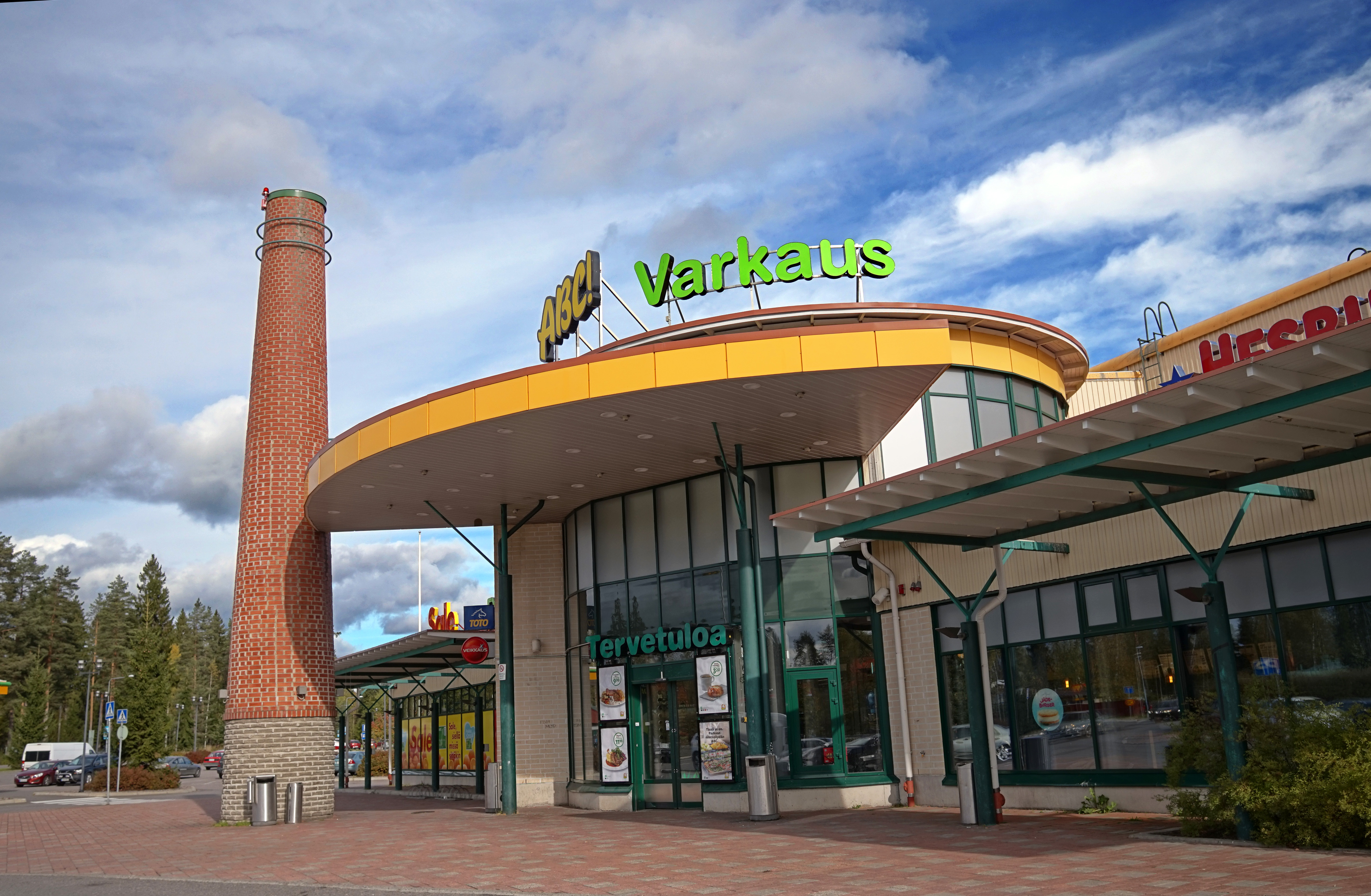 ABC petrol station in Varkaus, Finland.